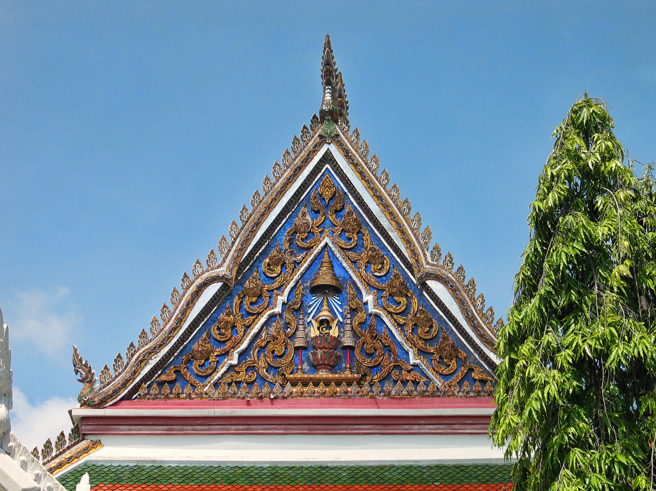 Tympanum of Phra Wihan in Wat Makut Kasattriyaram Ratchaworawiharn, a second grade royal temple, Phra Nakhon district, Bangkok, Thailand